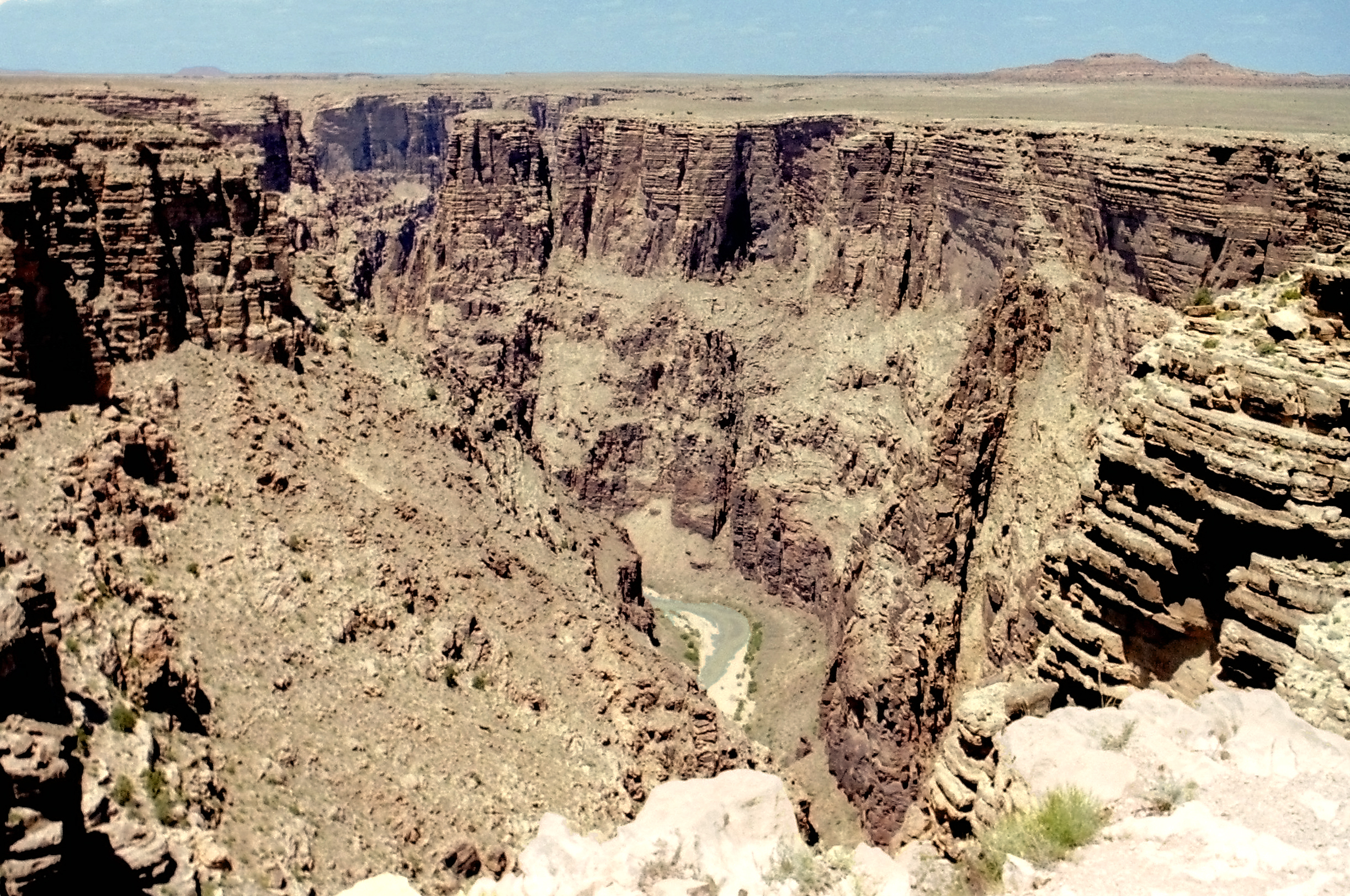 The Little Colorado River is a left tributary of the Colorado River in Arizona, United States. View to the Little Colorado Canyon near Cameron, Arizona.